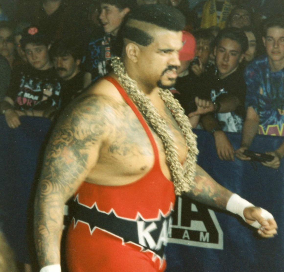 Paul Wright as Kama during a WWF tour at Manchester, England in April 4, 1998.